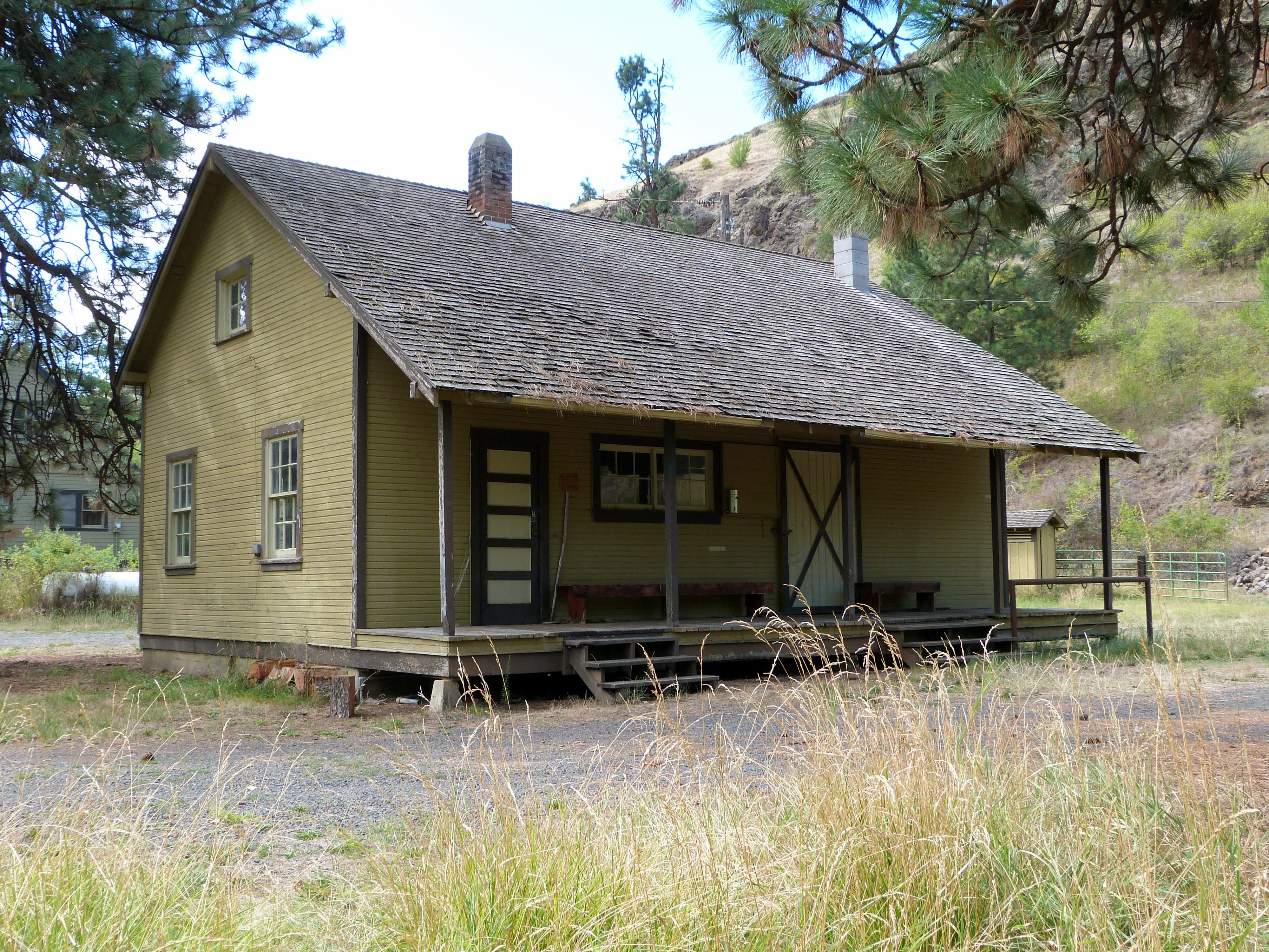 Office-warehouse # 2203 at the historic College Creek Ranger Station (built 1935) in the Wallowa–Whitman National Forest, Oregon, United States. The ranger station ensemble is listed on the US National Register of Historic Places.